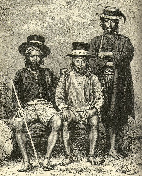 "Alcaldes of Upper Guatemala"; Town Alcaldes of Highland Guatemala.